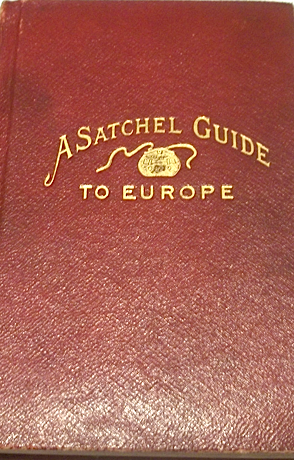 Cover of "Satchel Guide to Europe", 1910